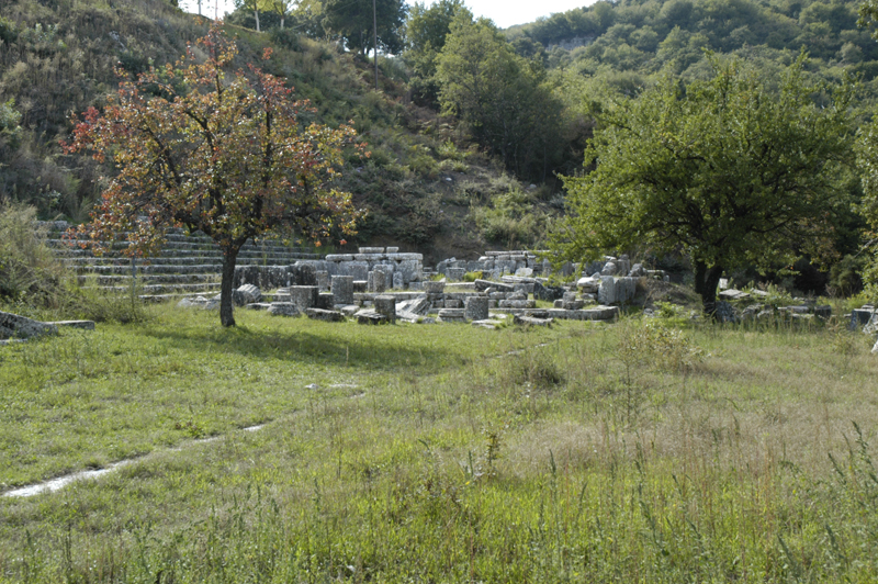 View SW from inside the Stoa toward the temple of Despoina. J. Matthew Harrington, personal digital image